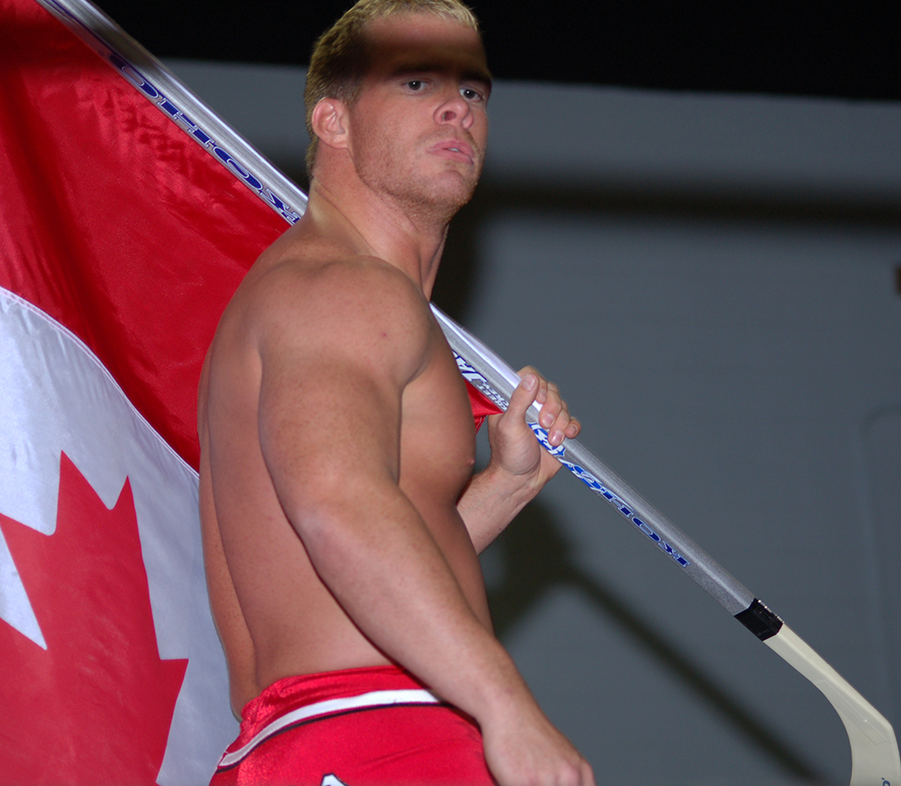 Photo I (Sayuncle) took of Tyson Dux at NWA Midwest show in Streamwood, IL on 11-11-2006